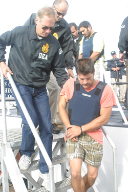 Francisco Javier Arellano Félix is arrested by the Drug Enforcement Administration. Source: [1].